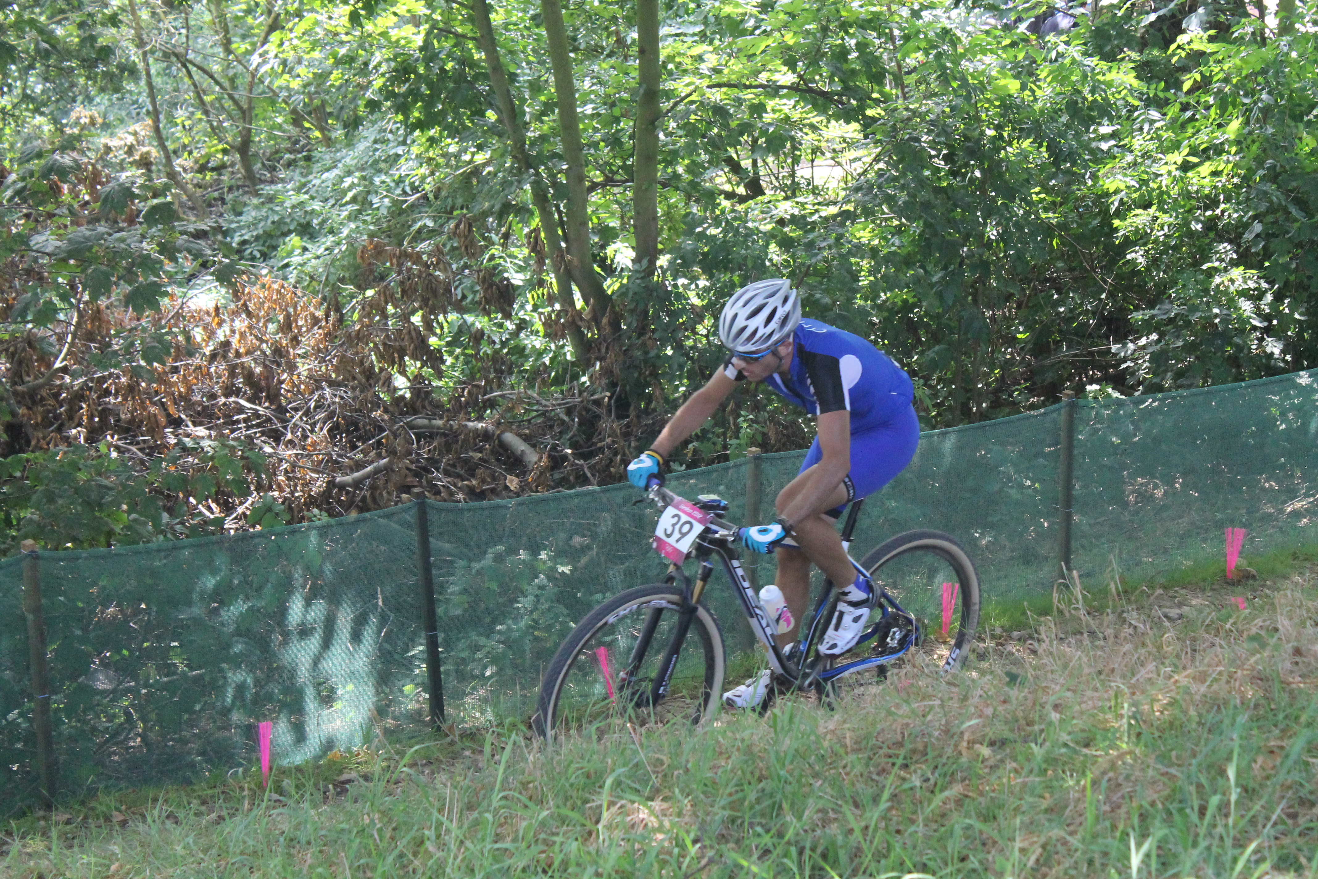 Cycling at the 2012 Summer Olympics – Men's cross-country Marios Athanasiadis (39) (CYP) IMG_4167